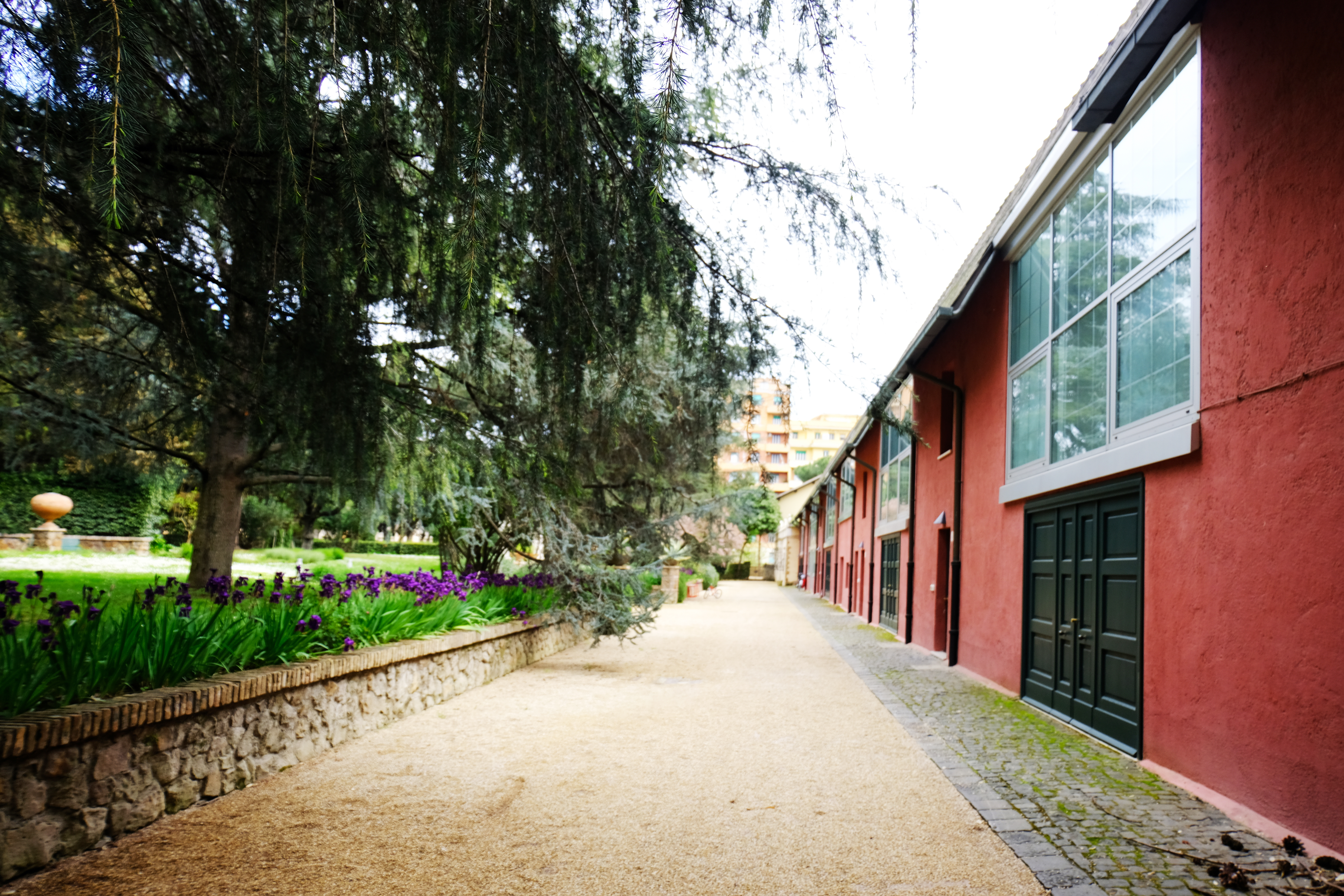 Studios and park of the Villa Massimo, Rome, in 2019